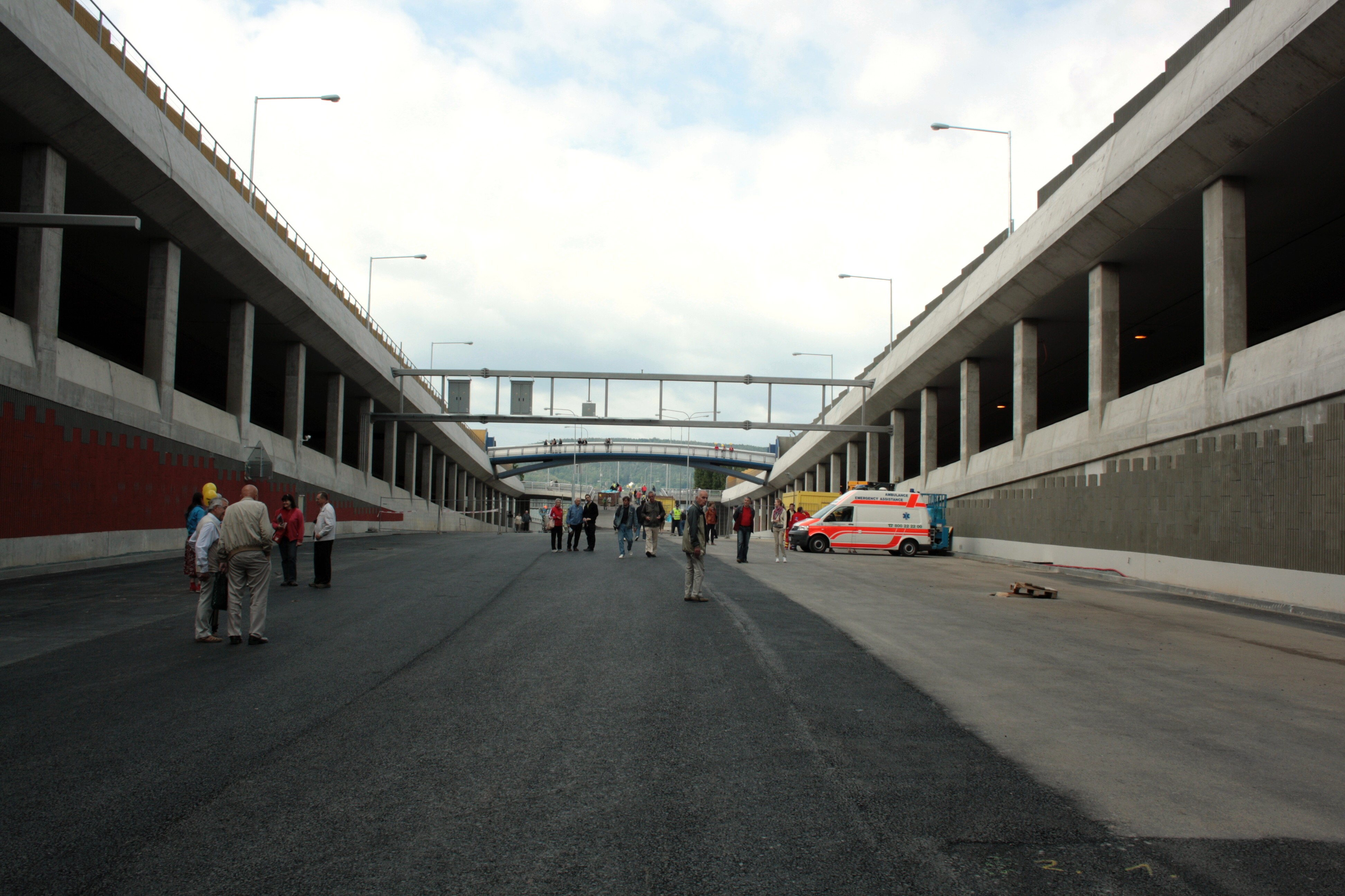 Open doors day in Královo Pole Tunnel, Brno, Czech Republic This photograph was taken with a DSLR from WMCZ's Camera grant.